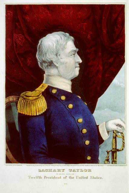 US President Zachary Taylor (1784-1850) election poster. "Zachary Taylor: the nation's choice for twelfth president of the United States"